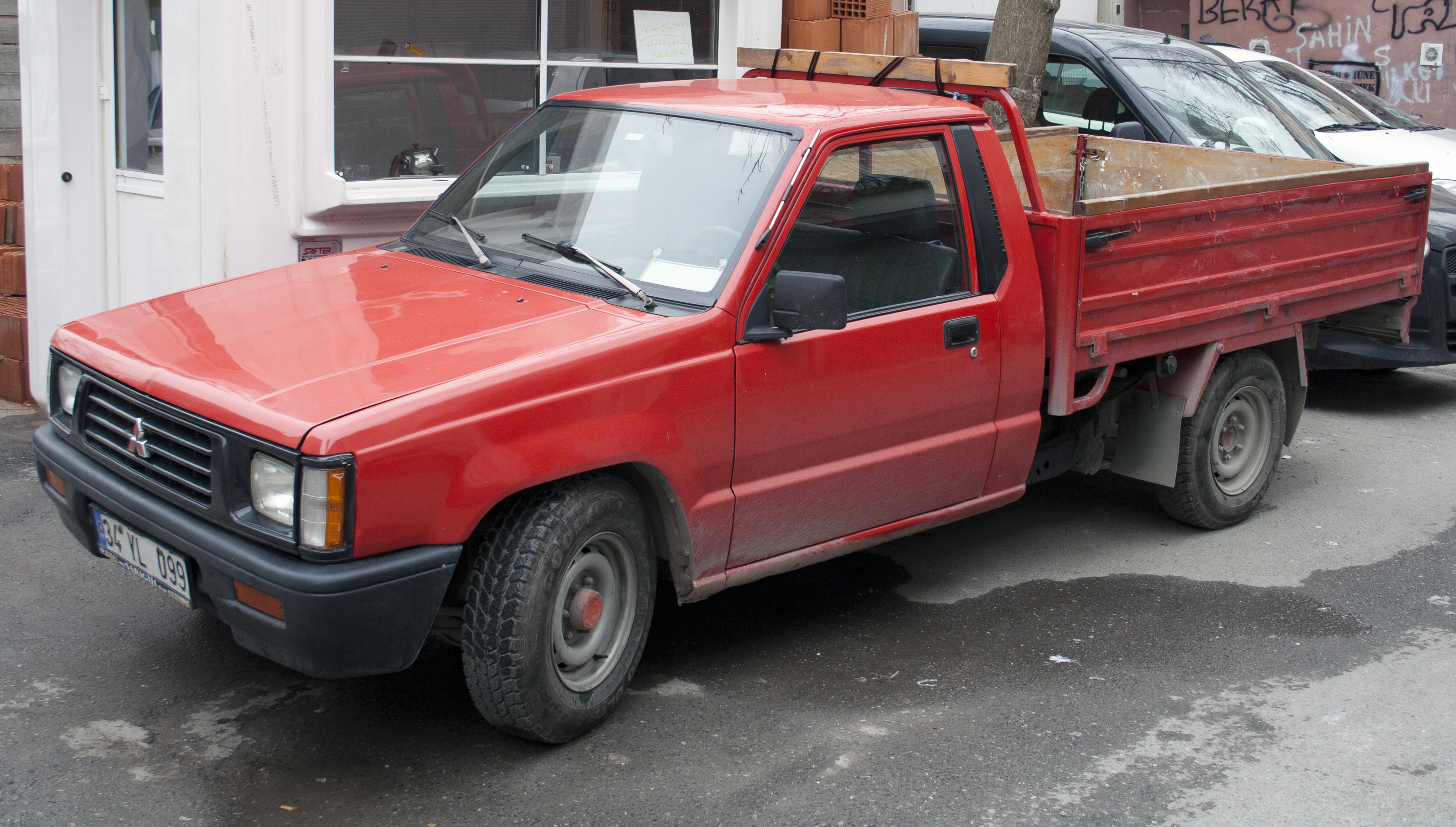 Mitsubishi L200 truck with a separate bed next to the Yeni Valide Cami mosque in Üsküdar, Istanbul.